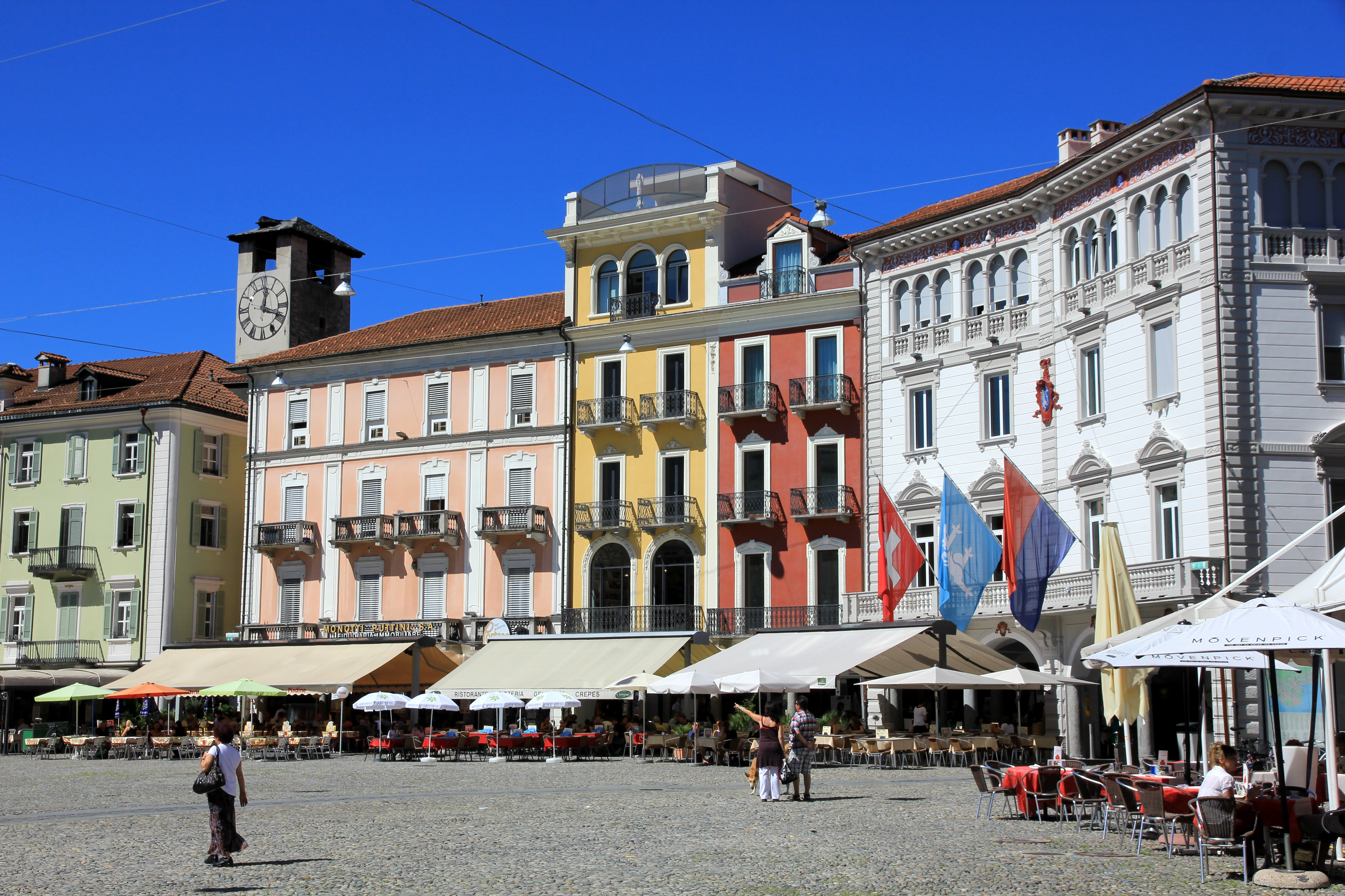 Piazza Grande (Locarno)